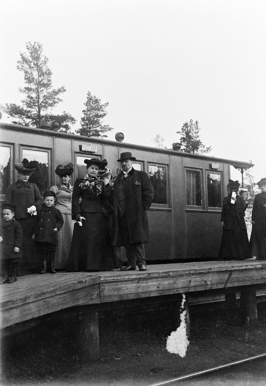 Photograph of Eero and Maissi Erkko when they were expelled from Finland, at Helsinki railway station.